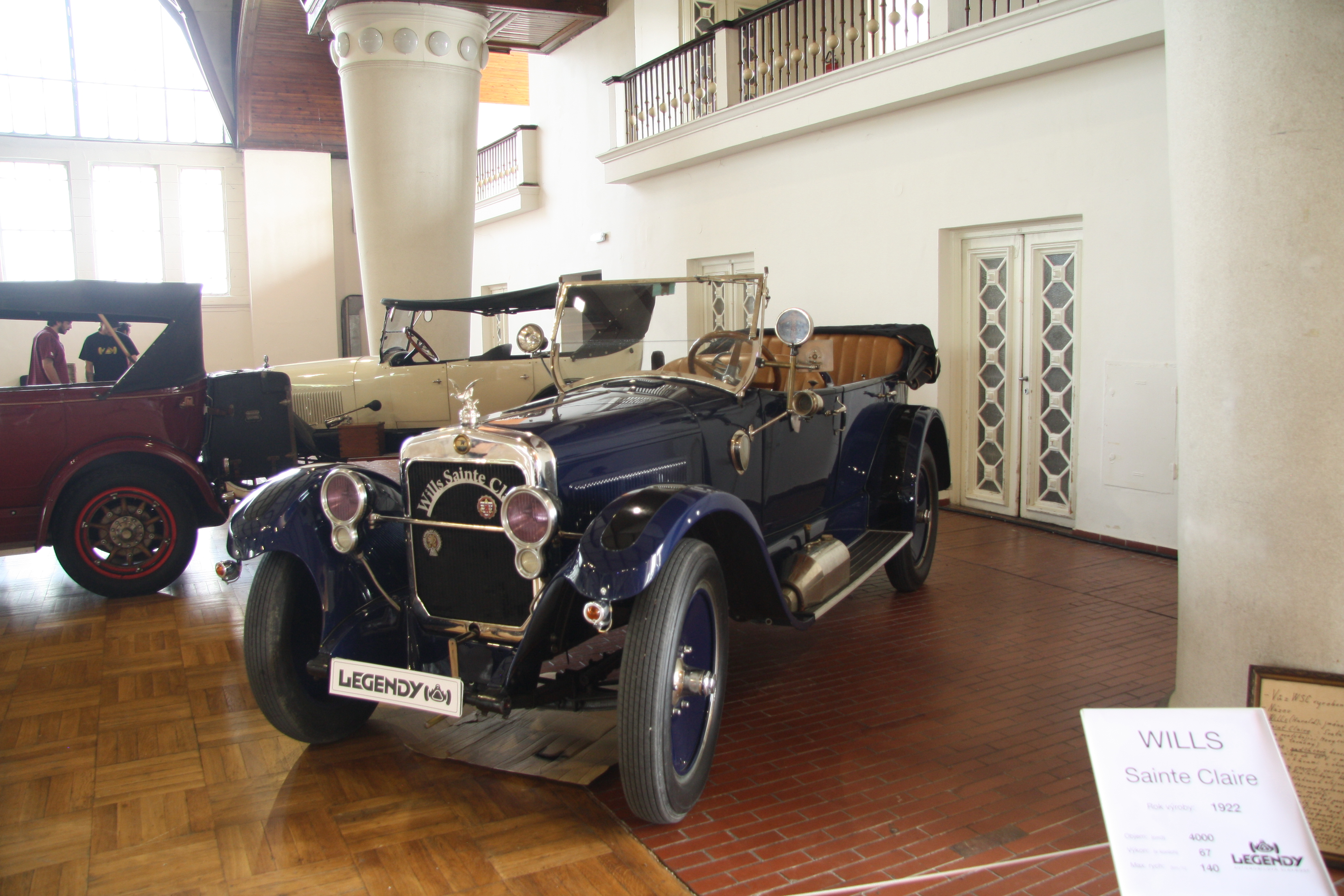 Wills Sainte Claire at Legendy 2018 in Prague.